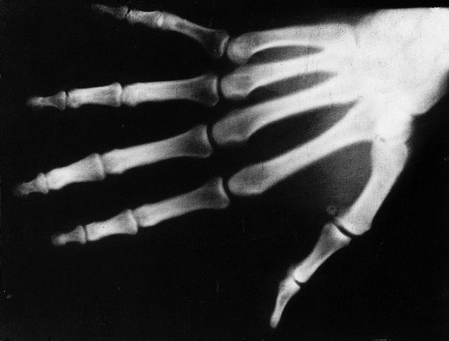 The first x-ray photograph taken in Norway. Professor Torup's hand photographed by Kristian Birkeland in February 1896. Exposure time: 5 min.